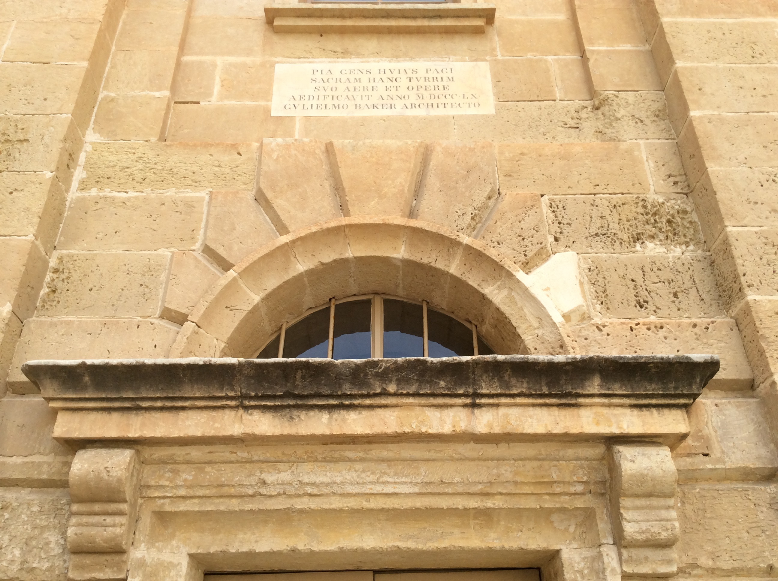 Buildings in Gudja